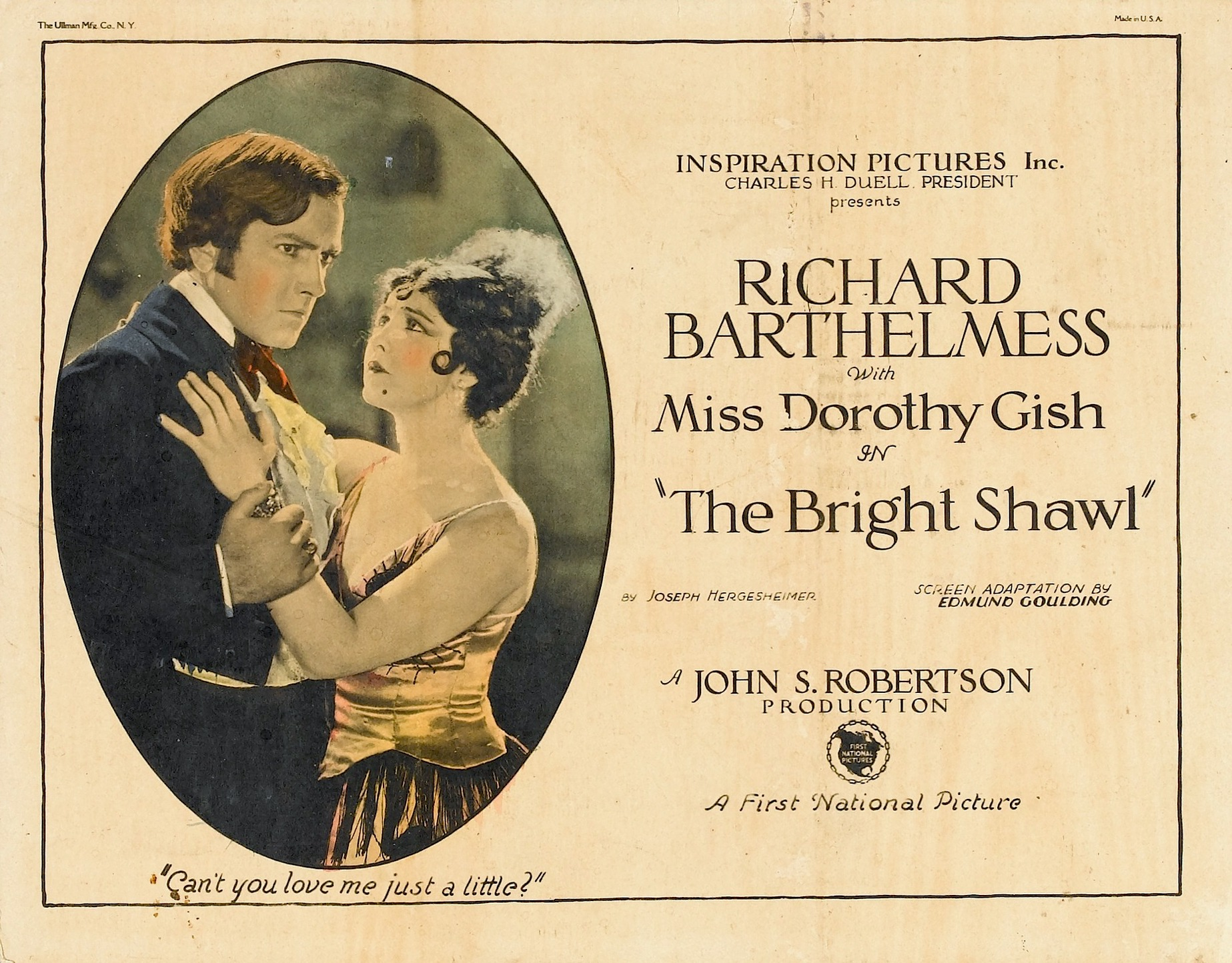 The Bright Shawl (1923) lobby card, with no copyright notices.